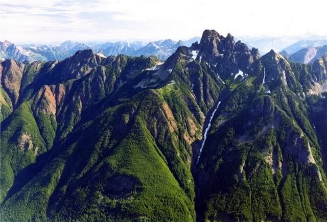 Slesse seen from Mount Larrabee in the North Cascades